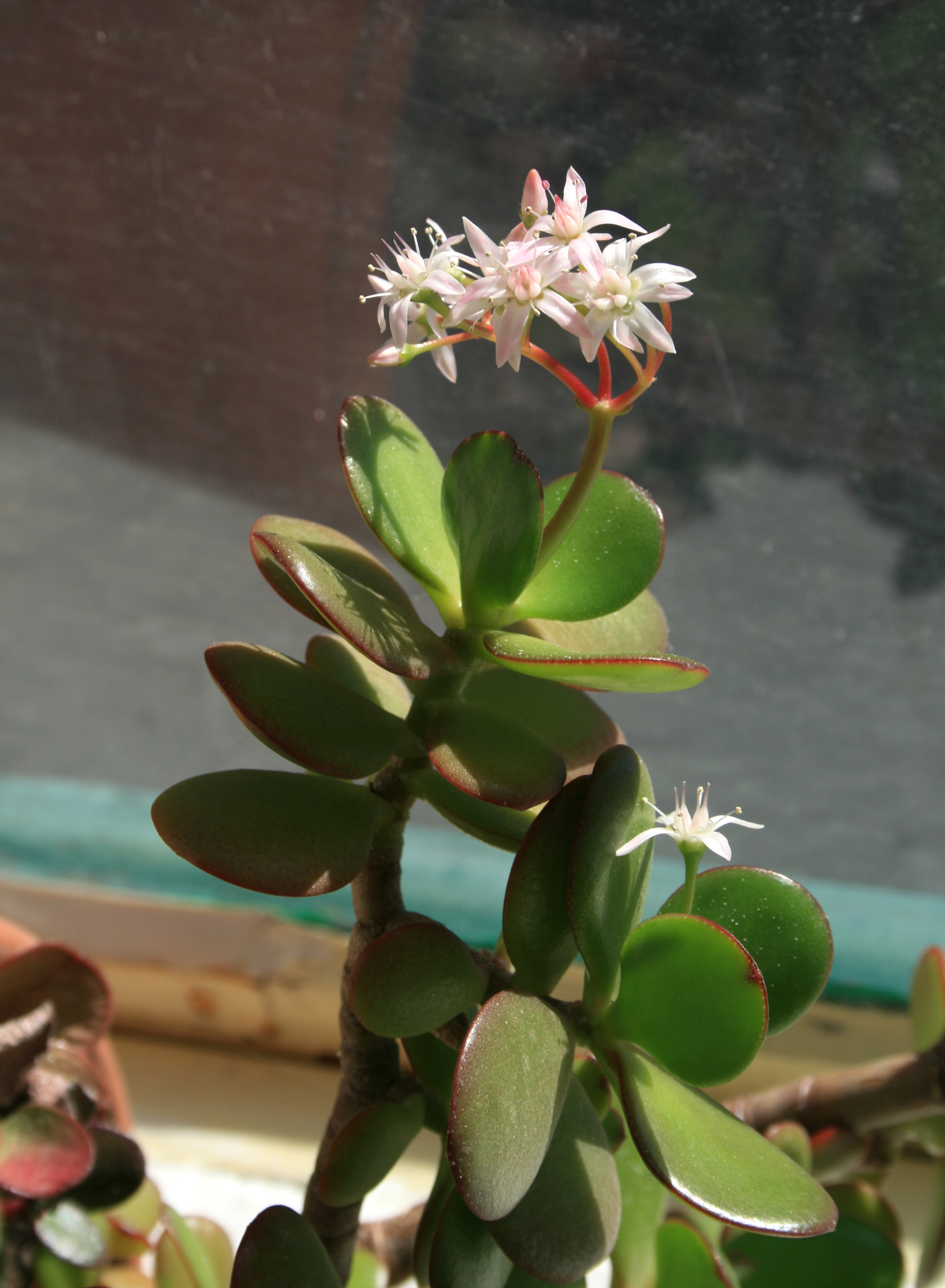 Flowering Crassula ovata, detail of flower